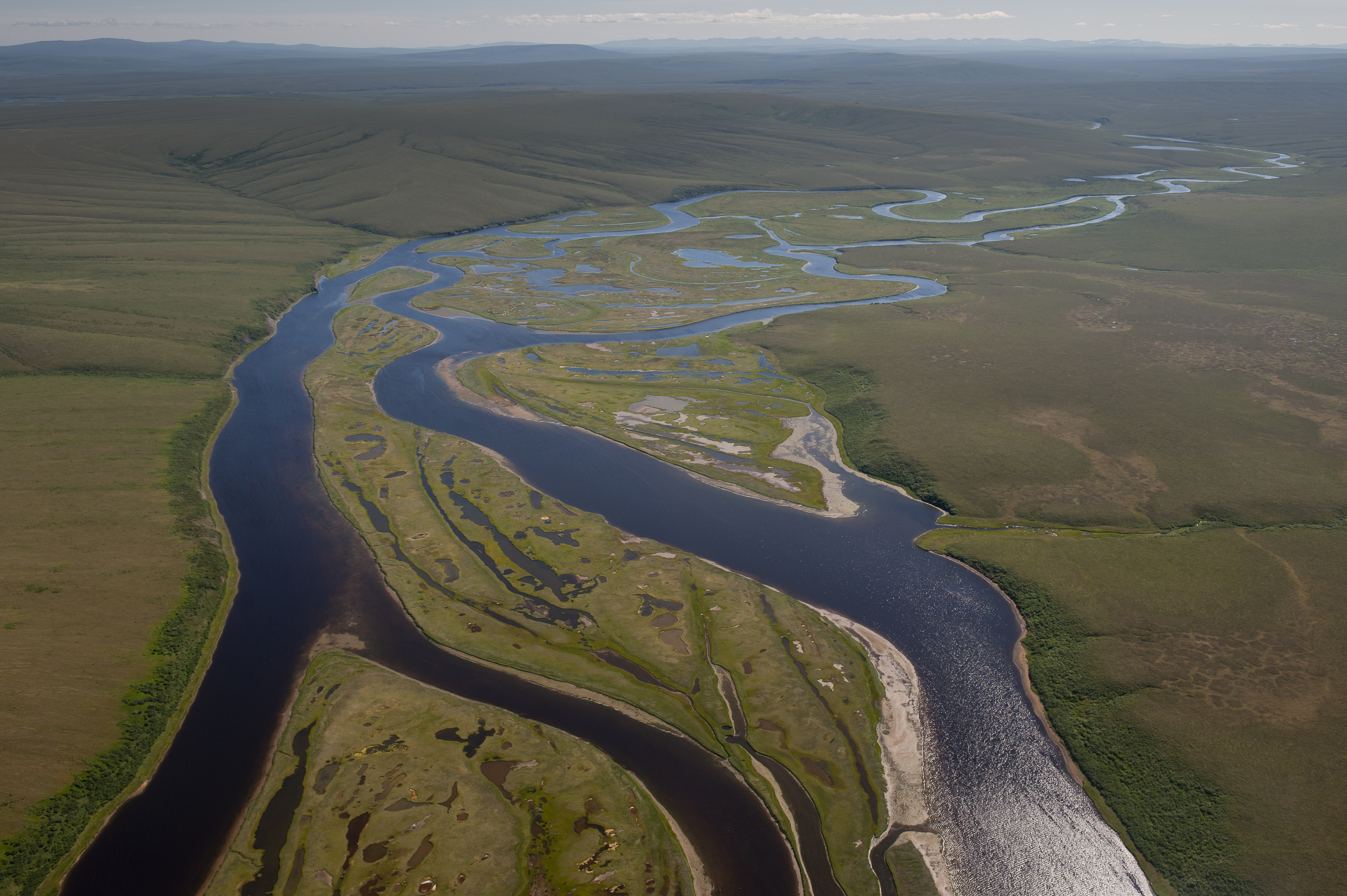 (NPS Photo by Neal Herbert)